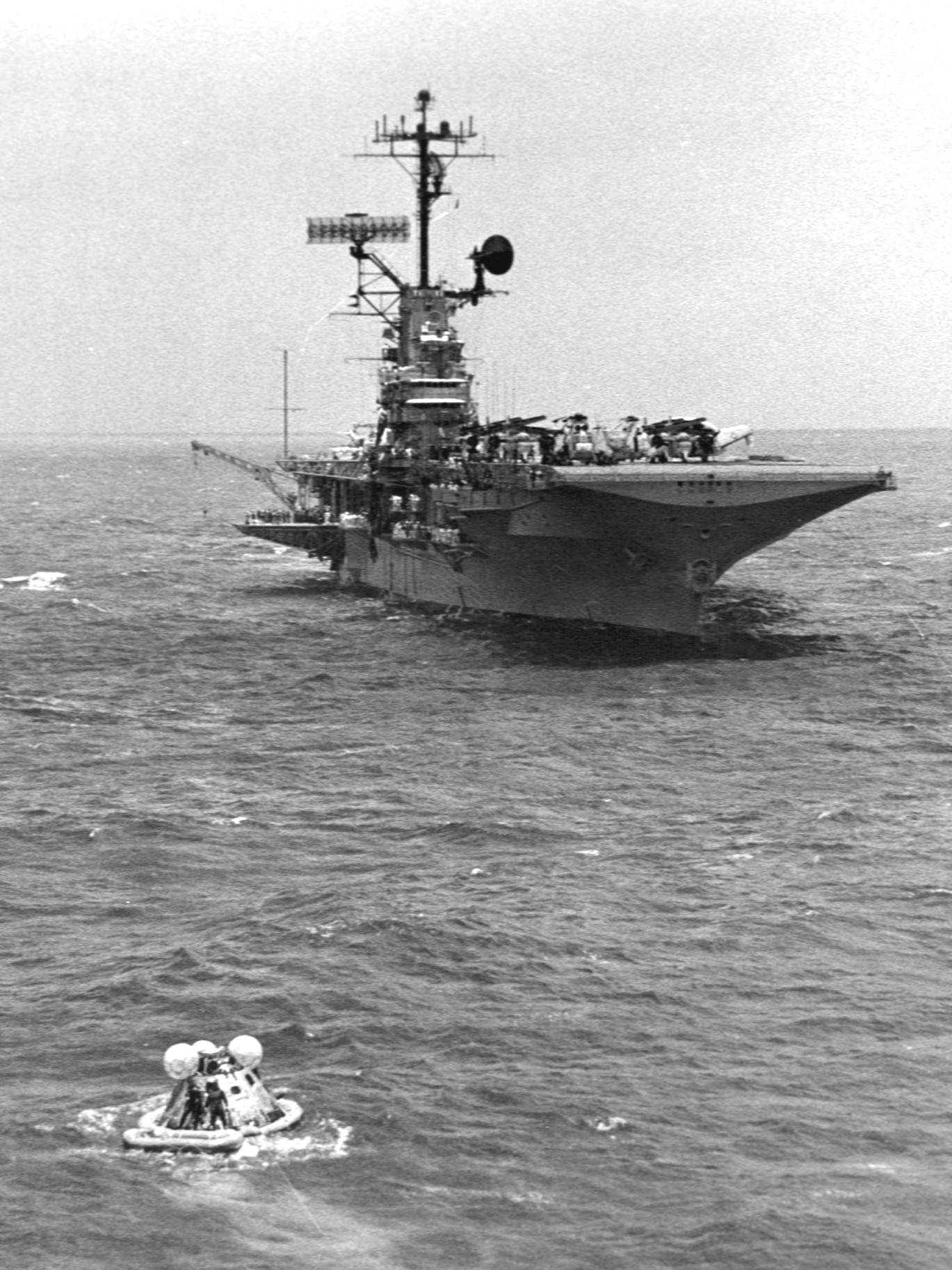 The U.S. Navy aircraft carrier USS Hornet (CVS-12) approaches the Apollo 11 space capsule to lift it aboard. Note the extended crane.